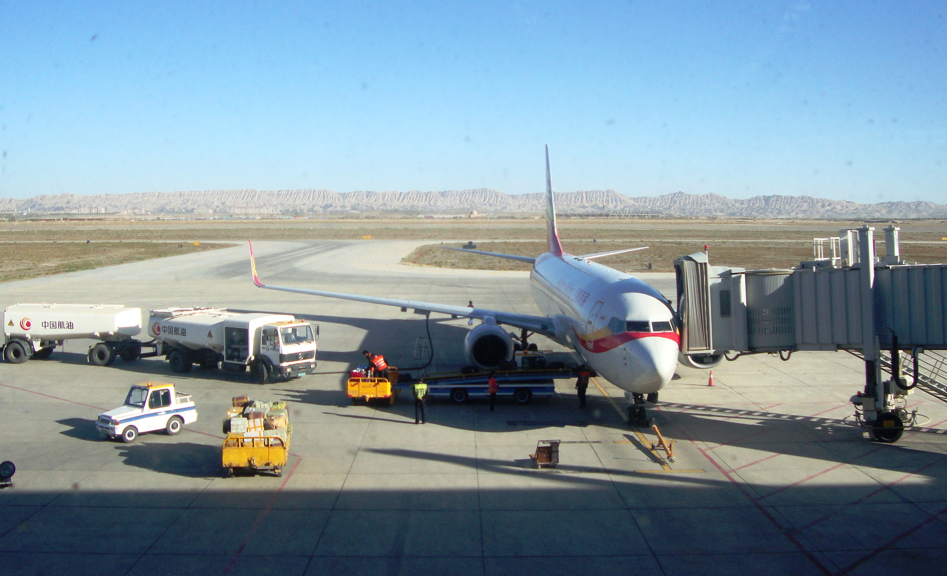 Hainan Airlines Embraer E190 at Kashgar Airport